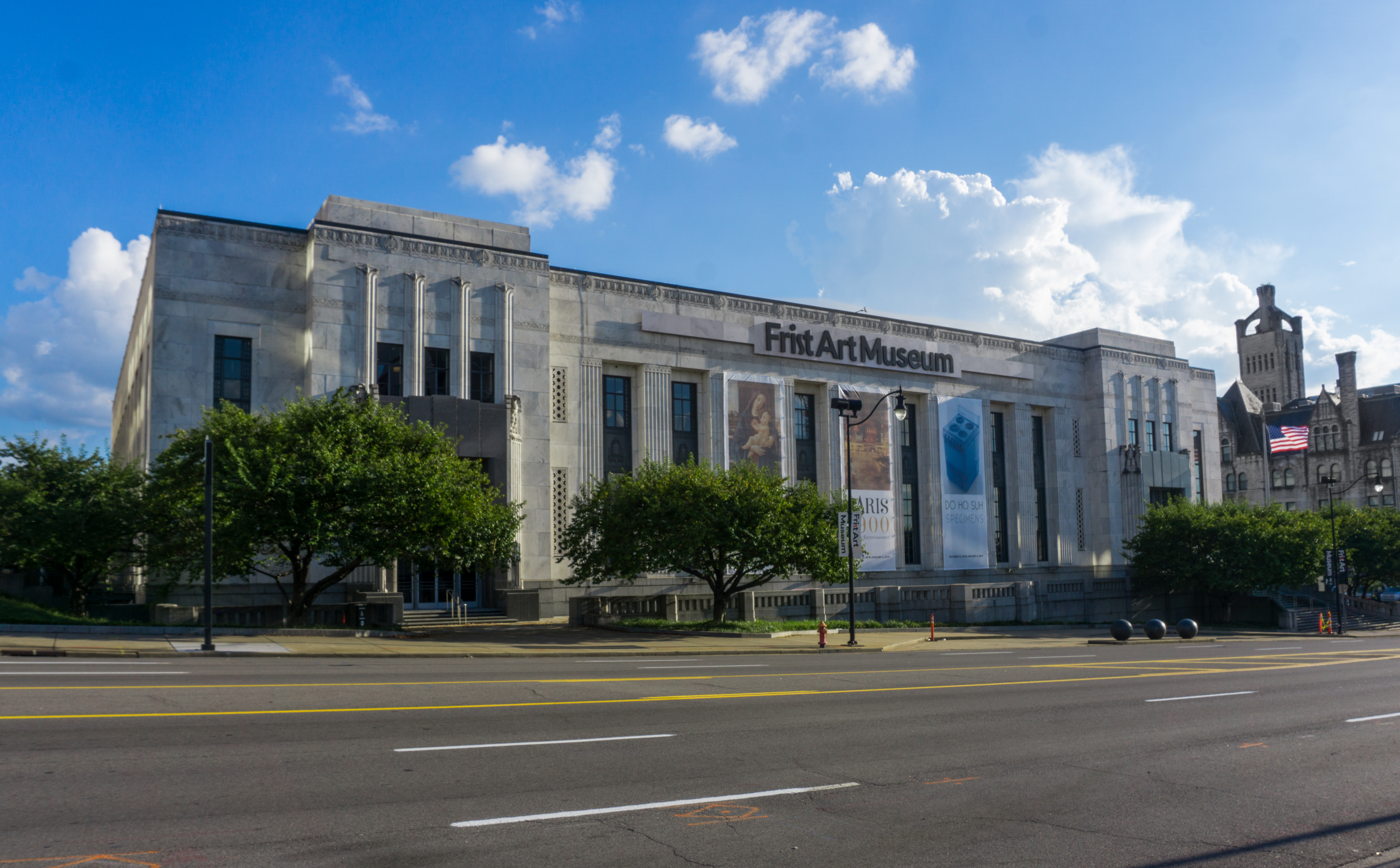 The Frist Art Museum, 2018.